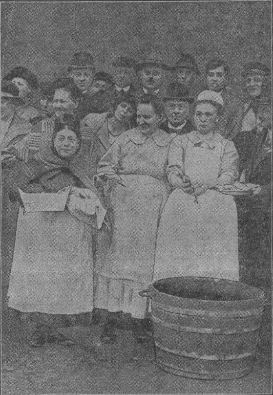 3 oktober festivities